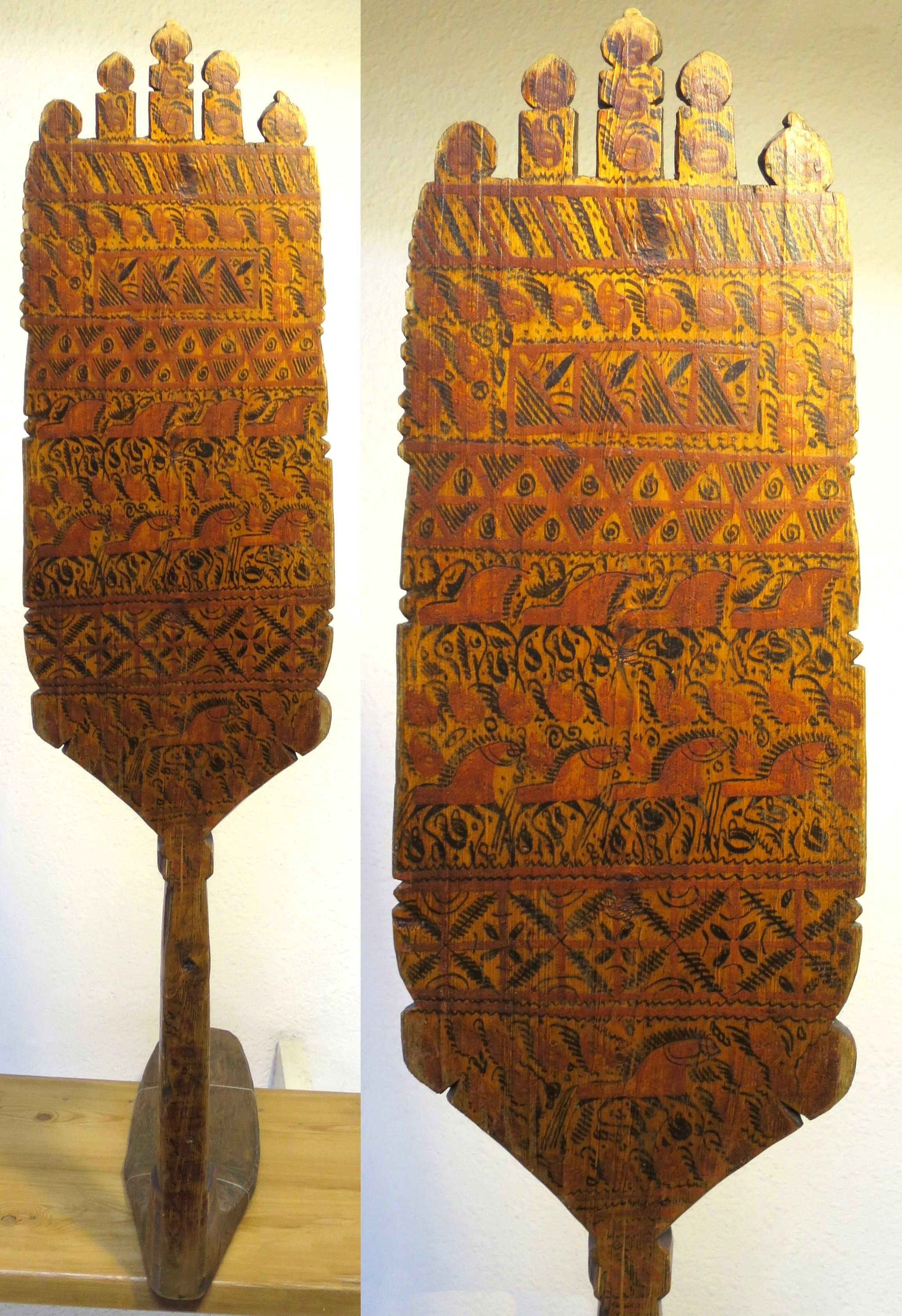 Russian distaff, late 19th-early 20th century, carved and painted wood, Arkhangelsk Regional Museum of Fine Arts